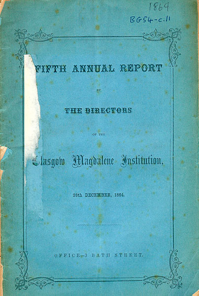 Cover page of Fifth Annual Report of the Directors of the Glasgow Magdalene Institution